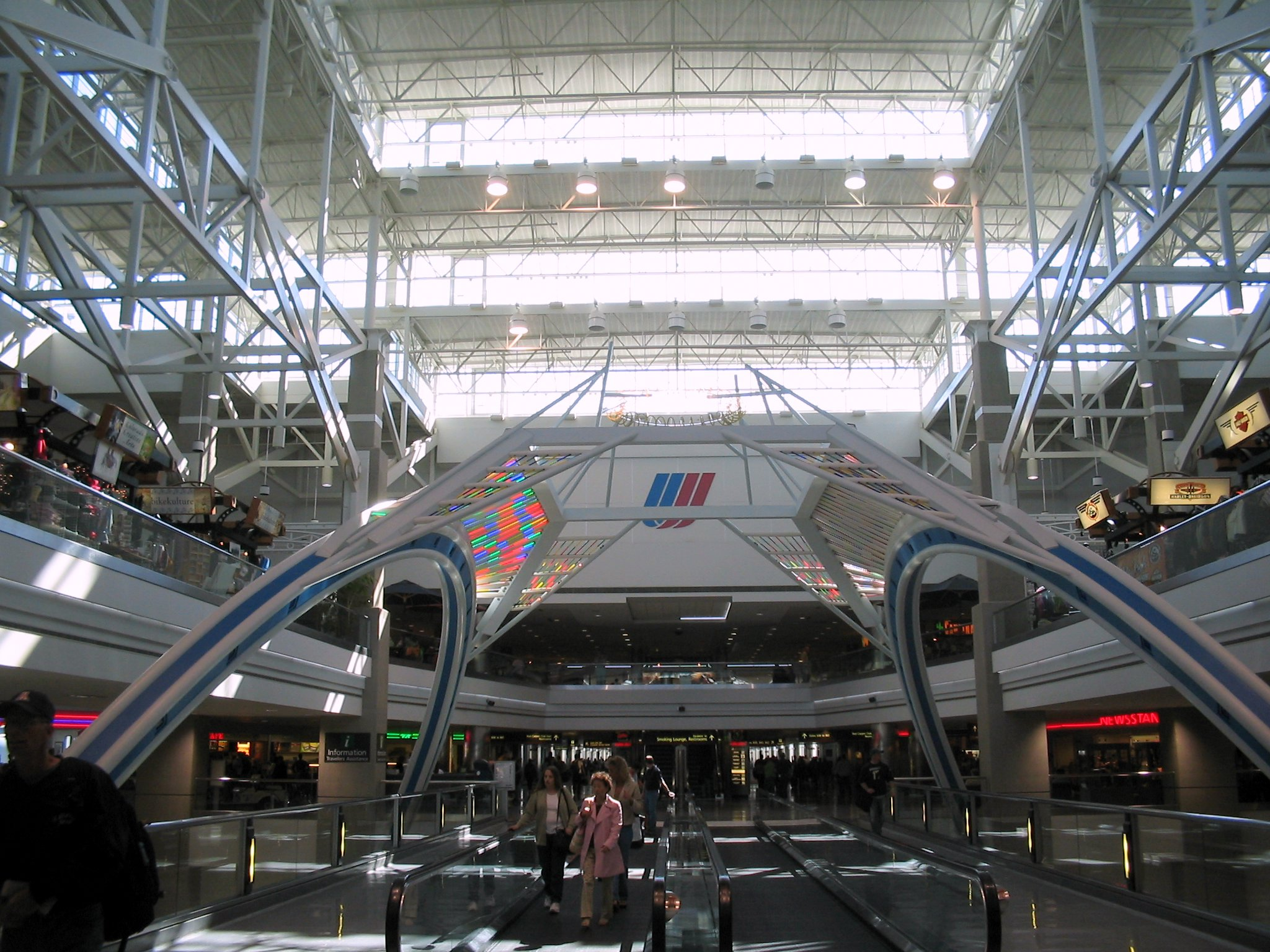 Concourse B at Denver International Airport. David Benbennick took this photograph Friday, April 22, 2005 at 9:46 AM (local time).